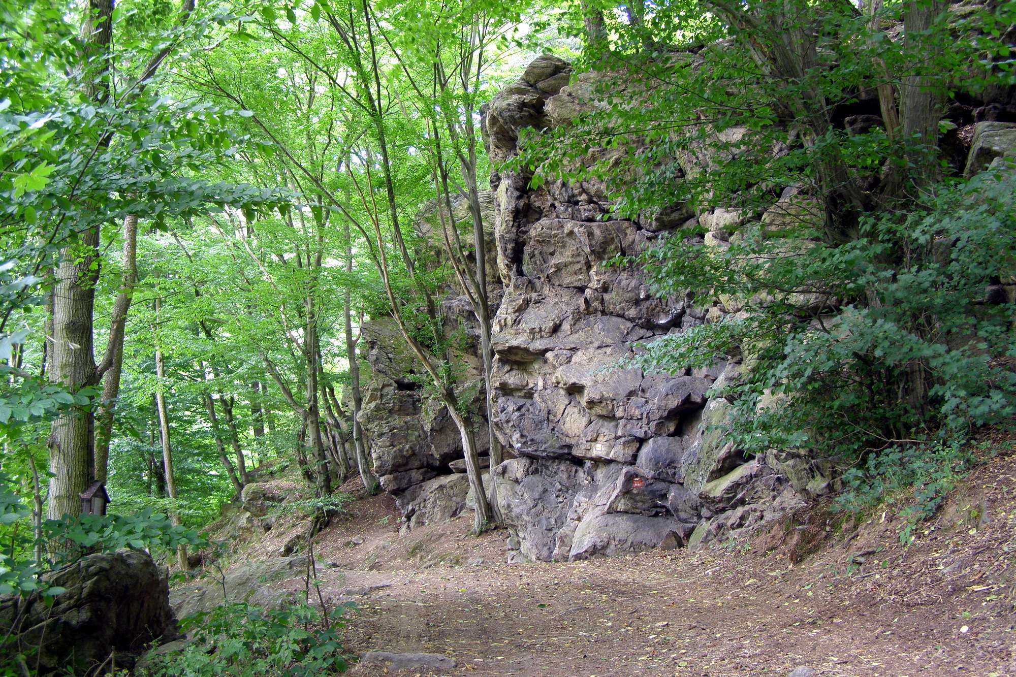 Příštpo. Justýnka Rock. Natural park Rokytná